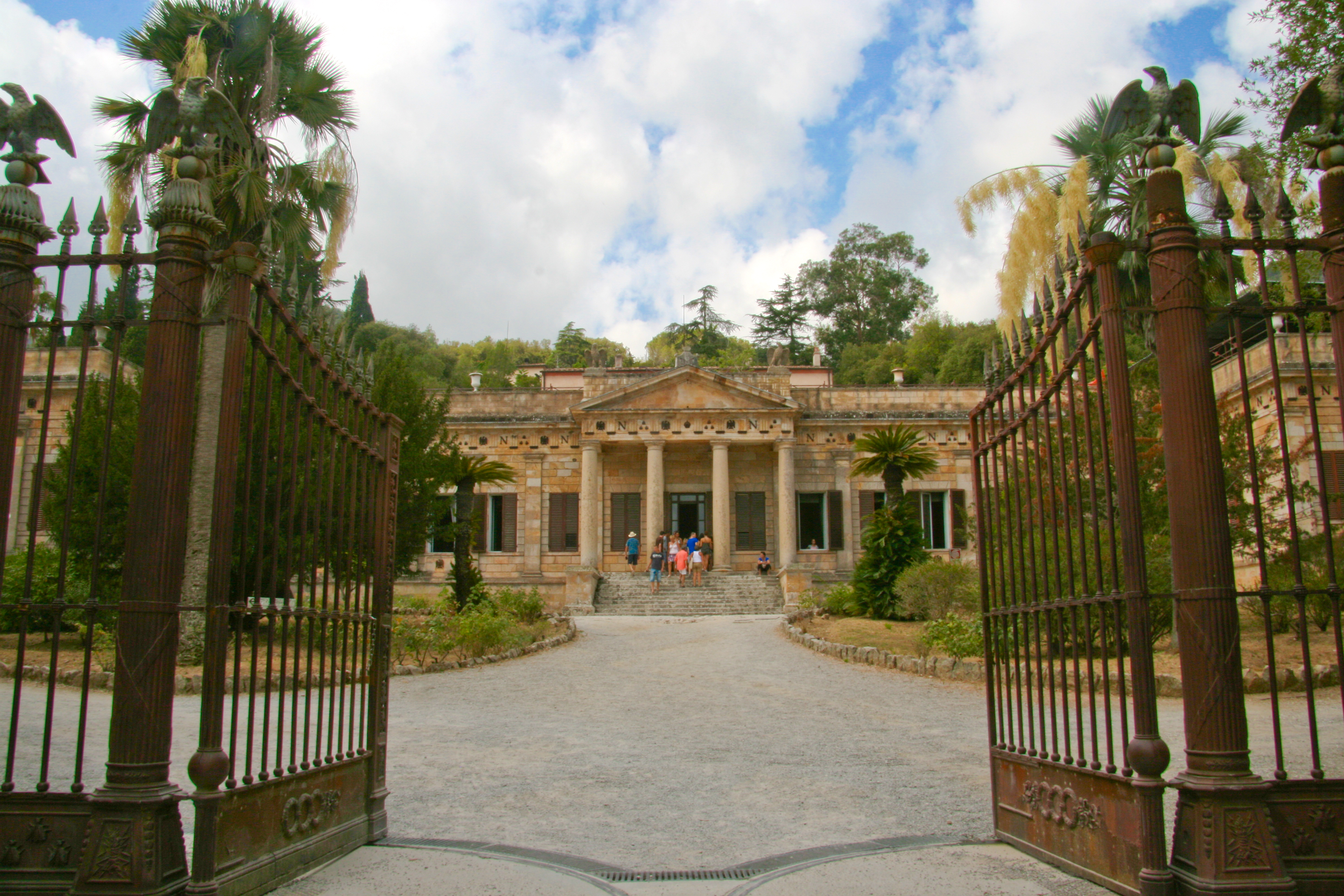 Napoleone's villa near Portoferraio, Elba island